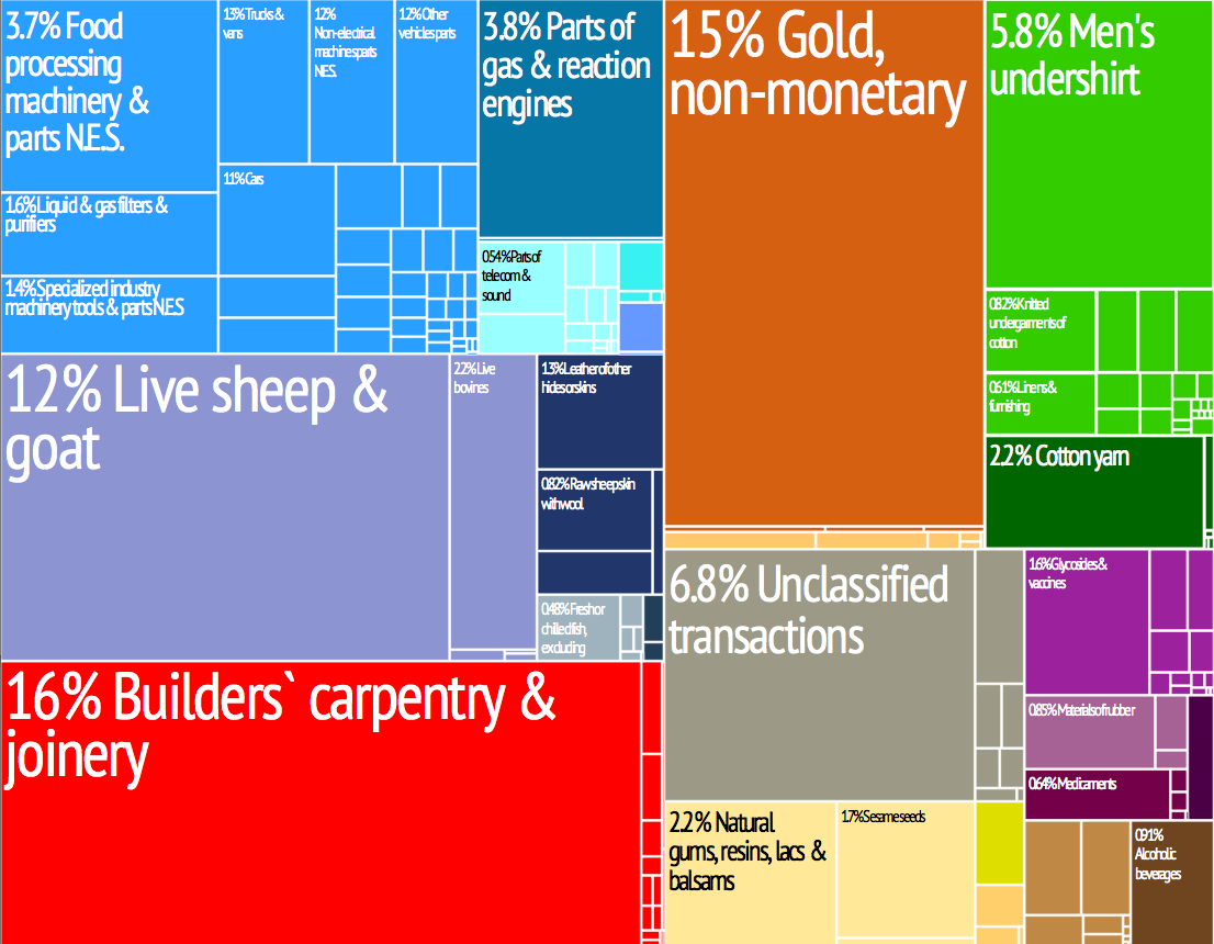 Export Trading Treemap. From MIT/Harvard Atlas of Economic Complexity